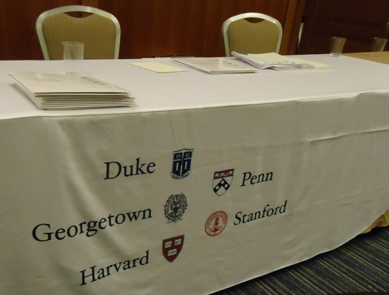 Five admissions departments at elite universities team together to sponsor a marketing promotion designed to encourage high school students to submit applications. The five universities are: Duke, Georgetown, Harvard, Pennsylvania, and Stanford. Here is a table where admissions officers greeted parents and students at a hotel in Parsippany, New Jersey on May 14, 2012.